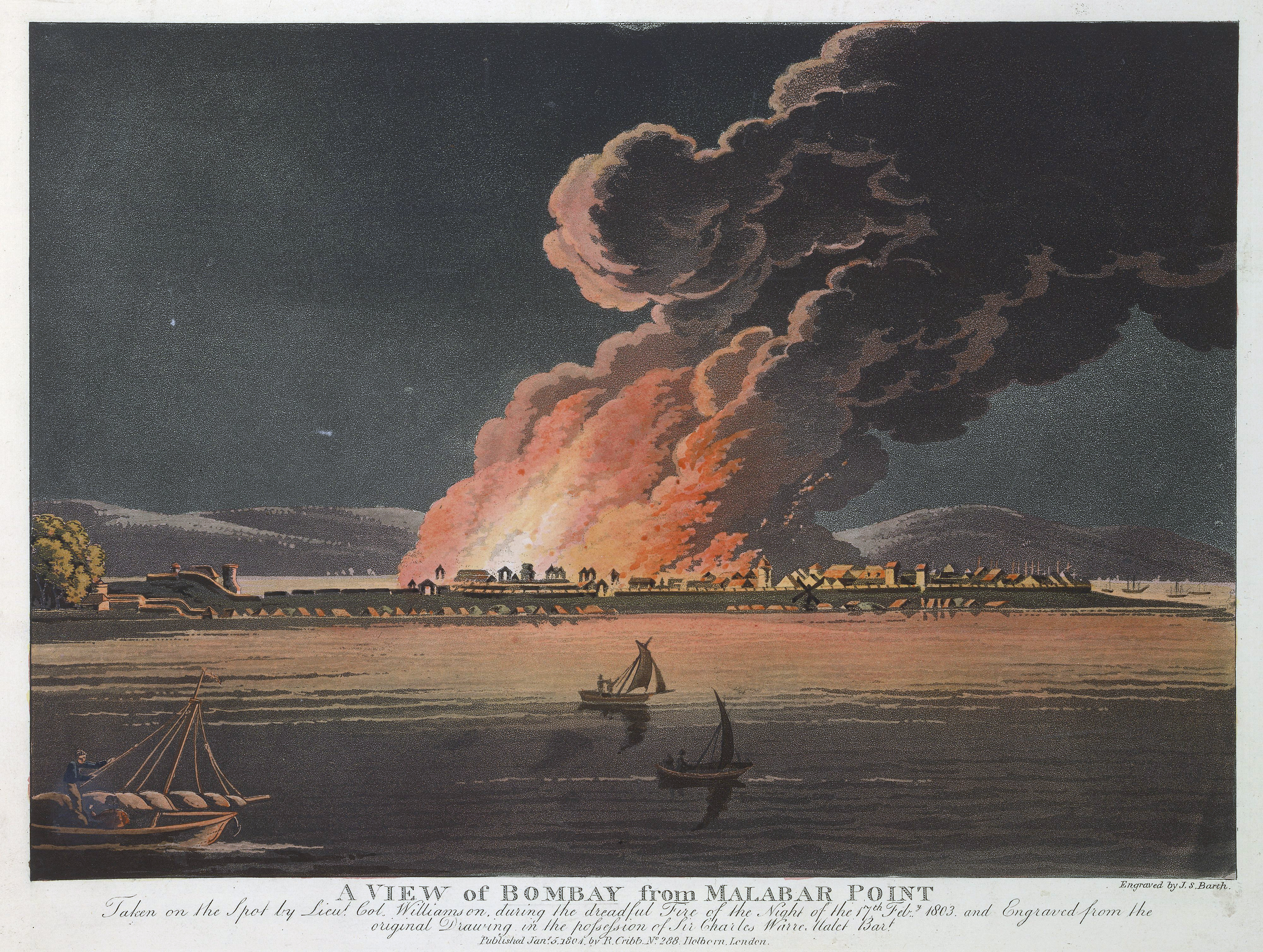 A view of Bombay on fire on February 17th, 1803, published by R. Cribb in 1804 and part of King George III's Topographical Collection. Bombay, (now Mumbai, the capital of Maharashtra State), was by this time the headquarters of the East India Company on India's west coast off the Arabian Sea, and had grown as a centre for the burgeoning cotton trade. Much of the settlement, which was centred around the old fort, was destroyed in the great fire of 1803. Although the fire was disastrous, it prompted the British to plan a new town with wider roads and better use of space. The engraving is based on a drawing by Lt. Colonel Williamson, executed on the spot from the heights of Malabar Hill while the fire was raging. Malabar Hill was the lushly wooded and steep-sided promontory which commanded panoramic views of Bombay. With its cool sea breezes it became the location for fine colonial mansions and is still an exclusive district of the city.